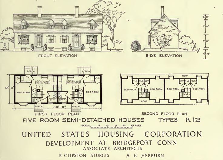 Famous architects - R. Clipston Sturgis and A.Hepburn - designed Seaside Village along with the famous town planner, Arthur A. Shurleff.